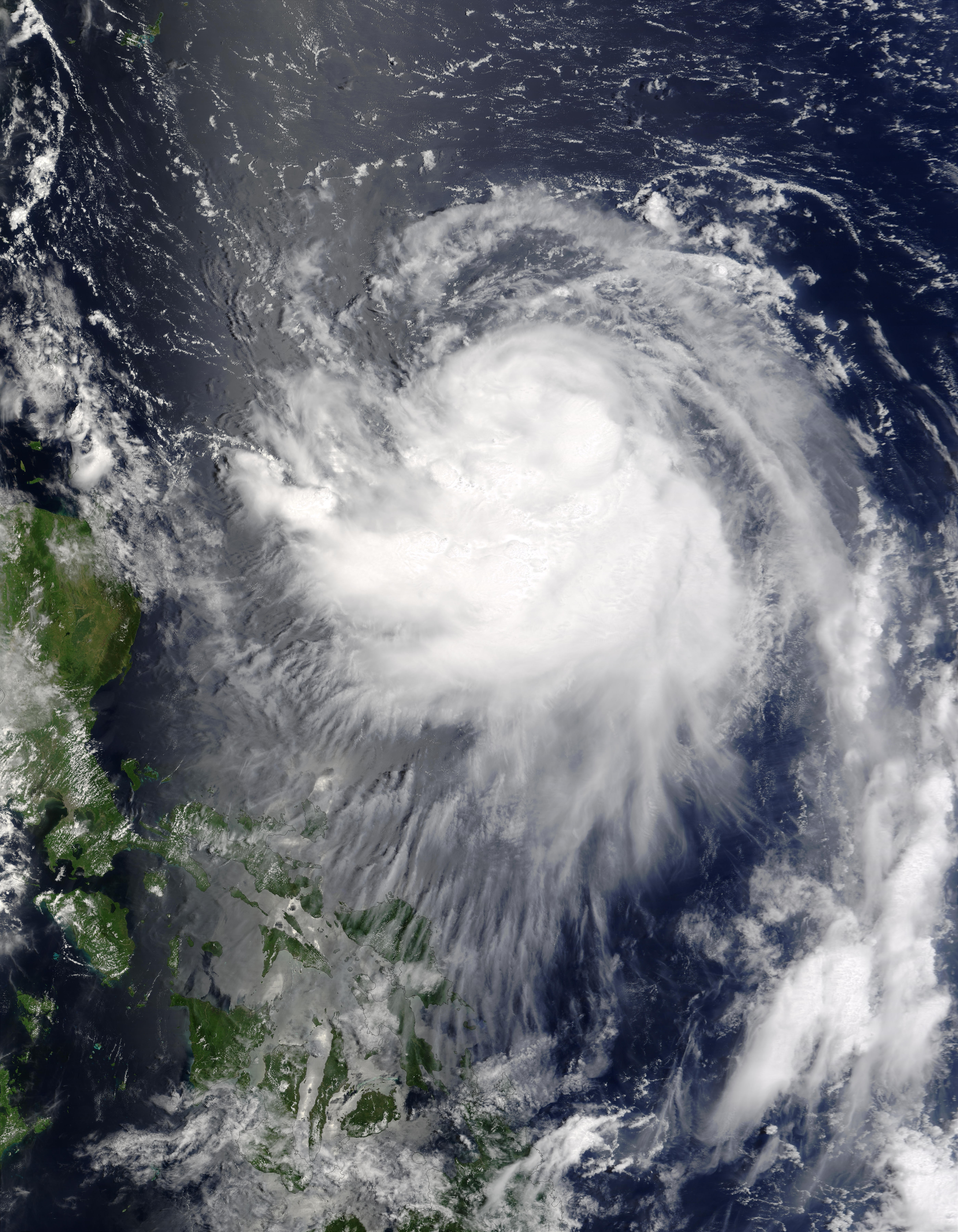 Typhoon Krovanh approaches the Philippines in this Moderate Resolution Imaging Spectroradiometer (MODIS) image captured by the Terra satellite on August 21, 2003, at 02:25 UTC (3:50 p.m. local time). At that time, the storm packed winds of an estimated 65 knots (75 mph) with gusts up to 80 knots (90 mph).